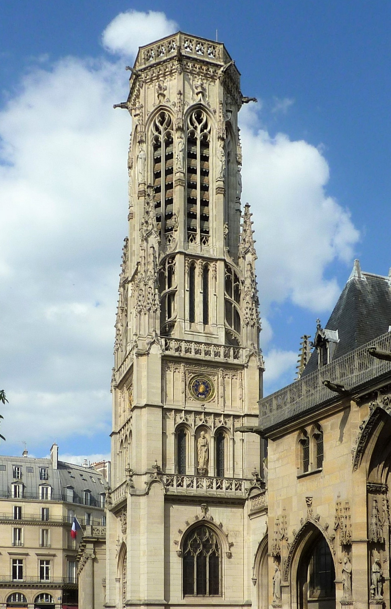 Exterior of Église Saint-Germain-l'Auxerrois de Paris